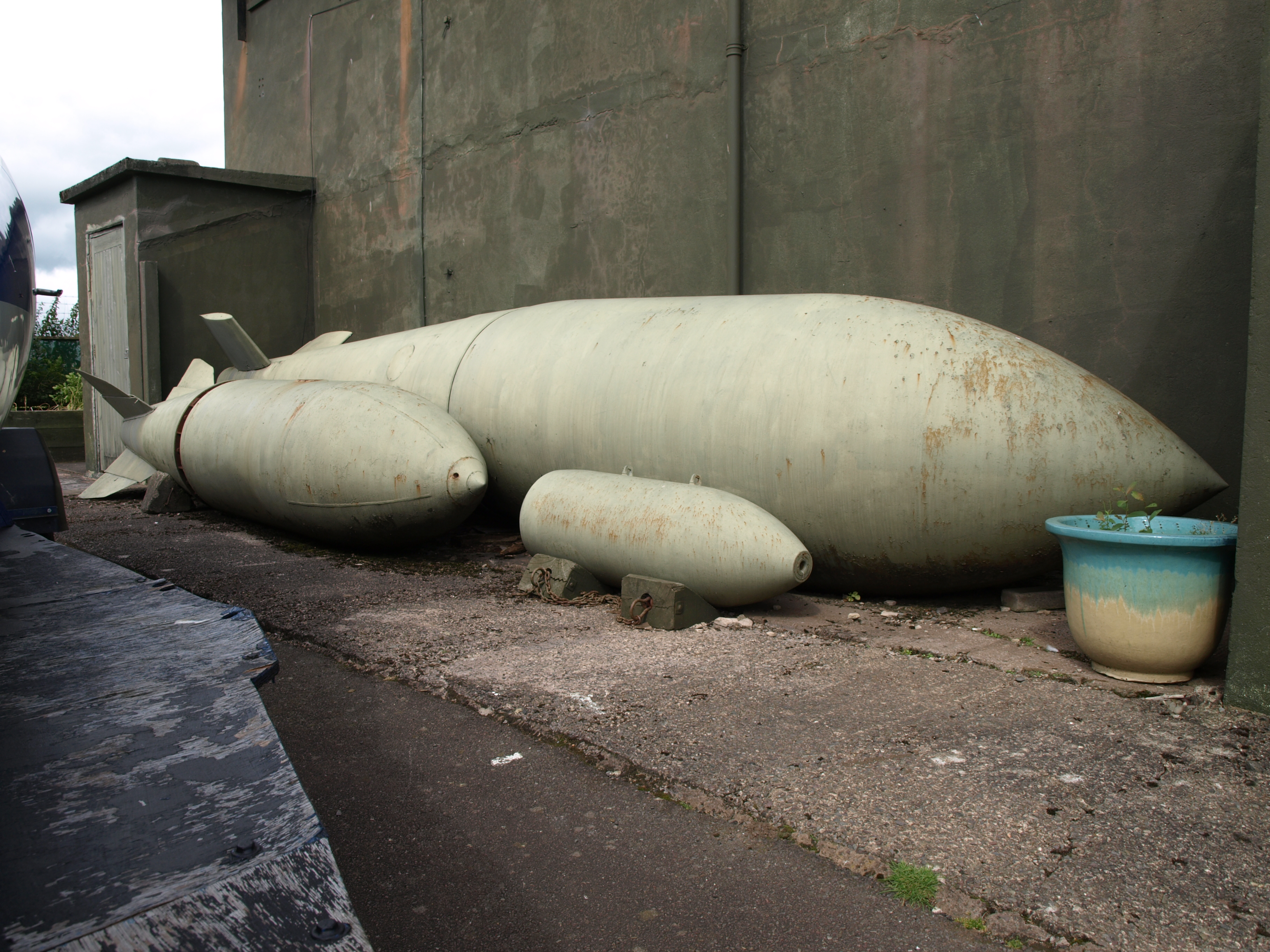 A Grand Slam bomb, the famous "earthquake bomb" designed by Barnes Wallis plus two unknown munitions although the larger may be a 5000lb HE bomb. Dumfries and Galloway Aviation Museum.